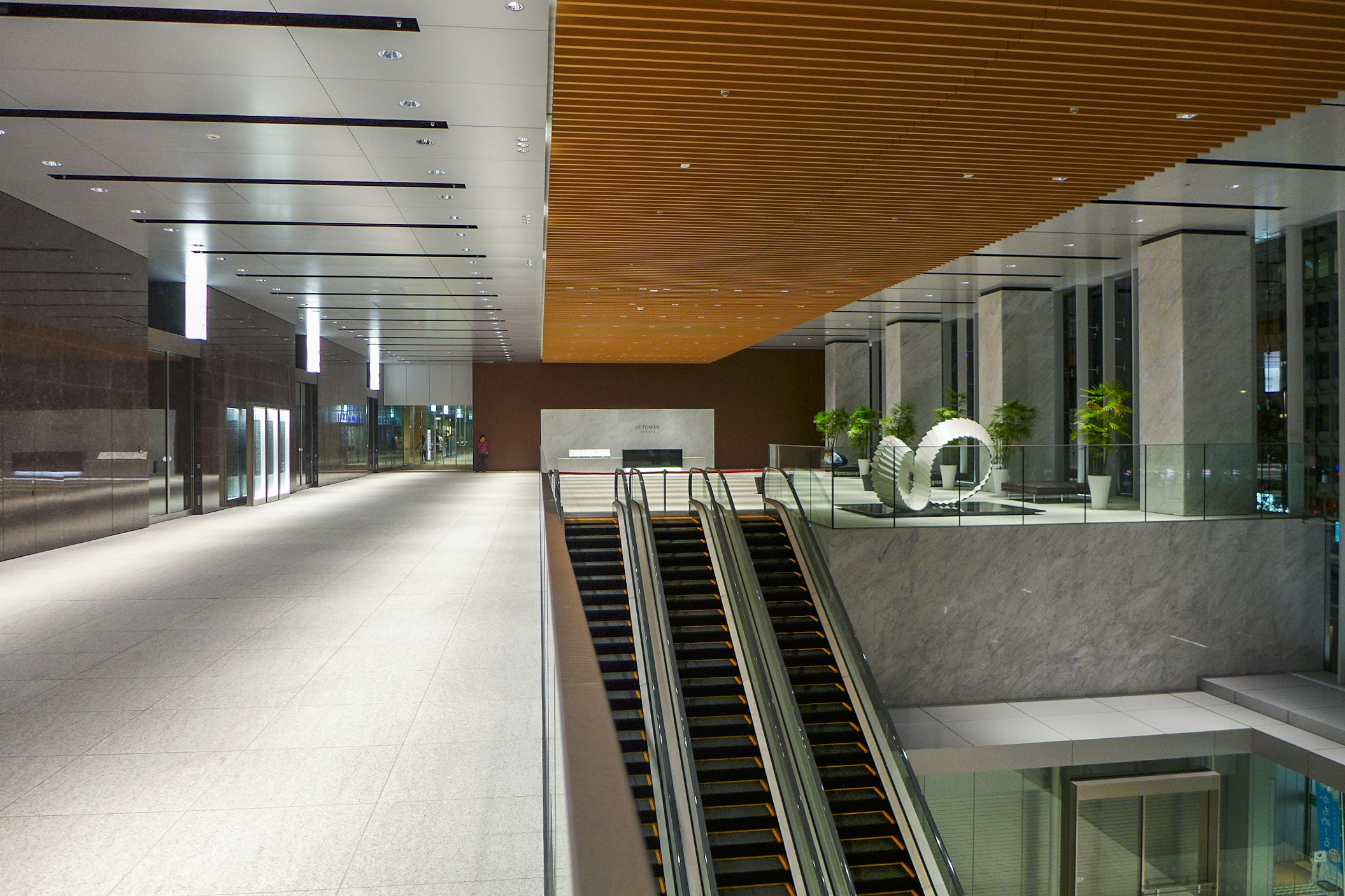 JP Tower Nagoya Office Lobby